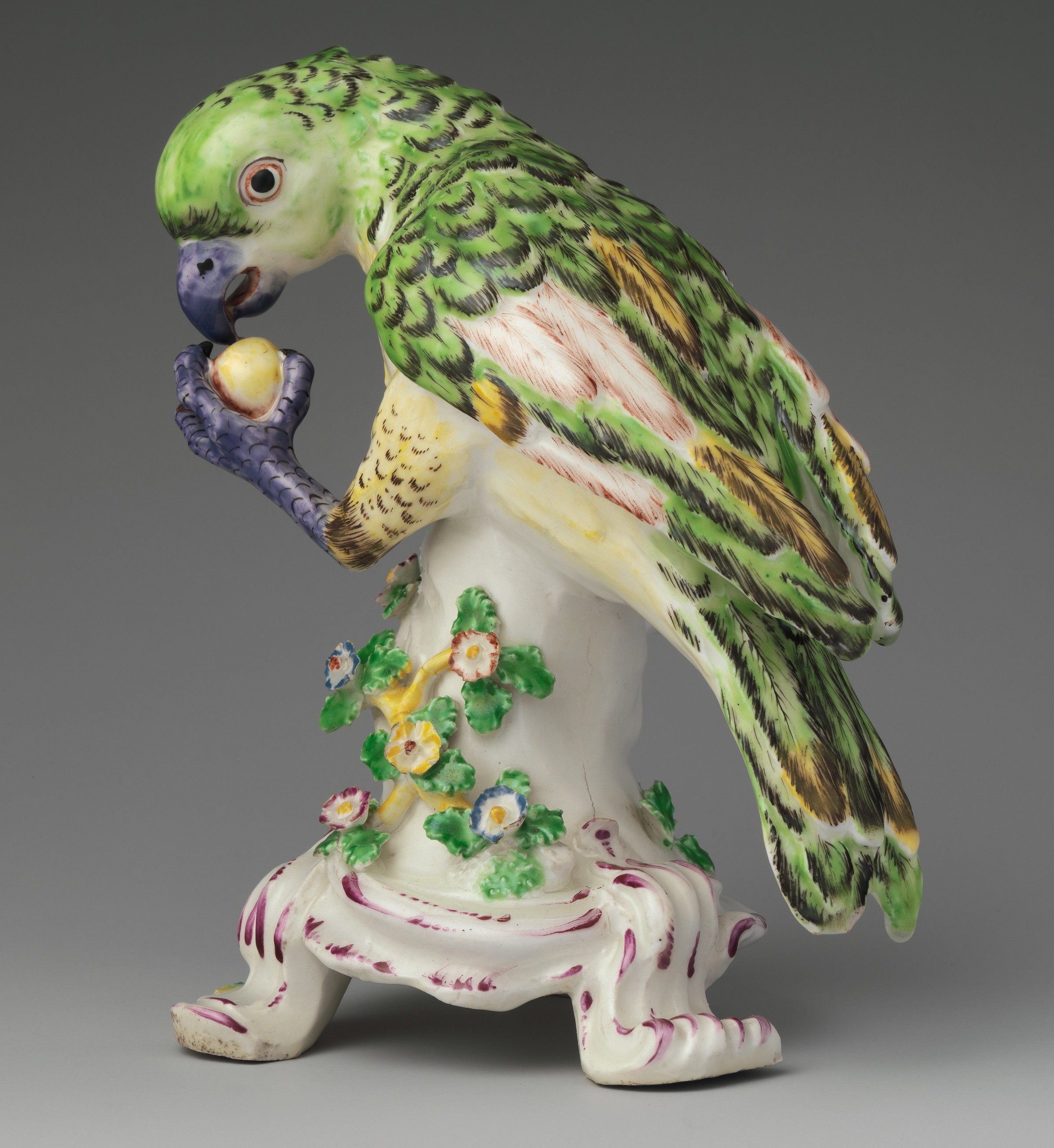 British, Bow; Figure; Ceramics-Porcelain